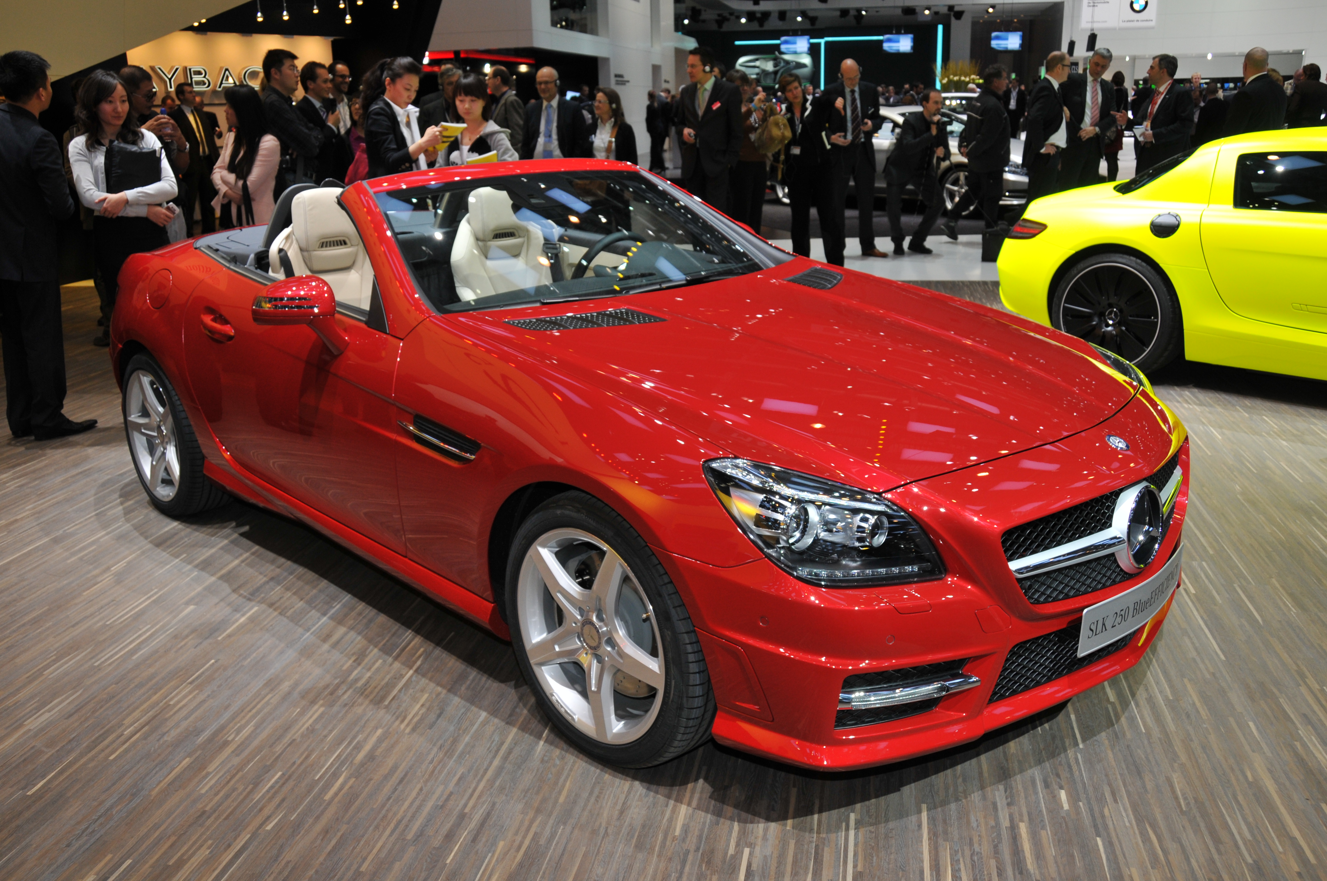 Mercedes-Benz SLK 250 BlueEFFICIENCY at the 2011 Geneva Motor Show. More pictures and info